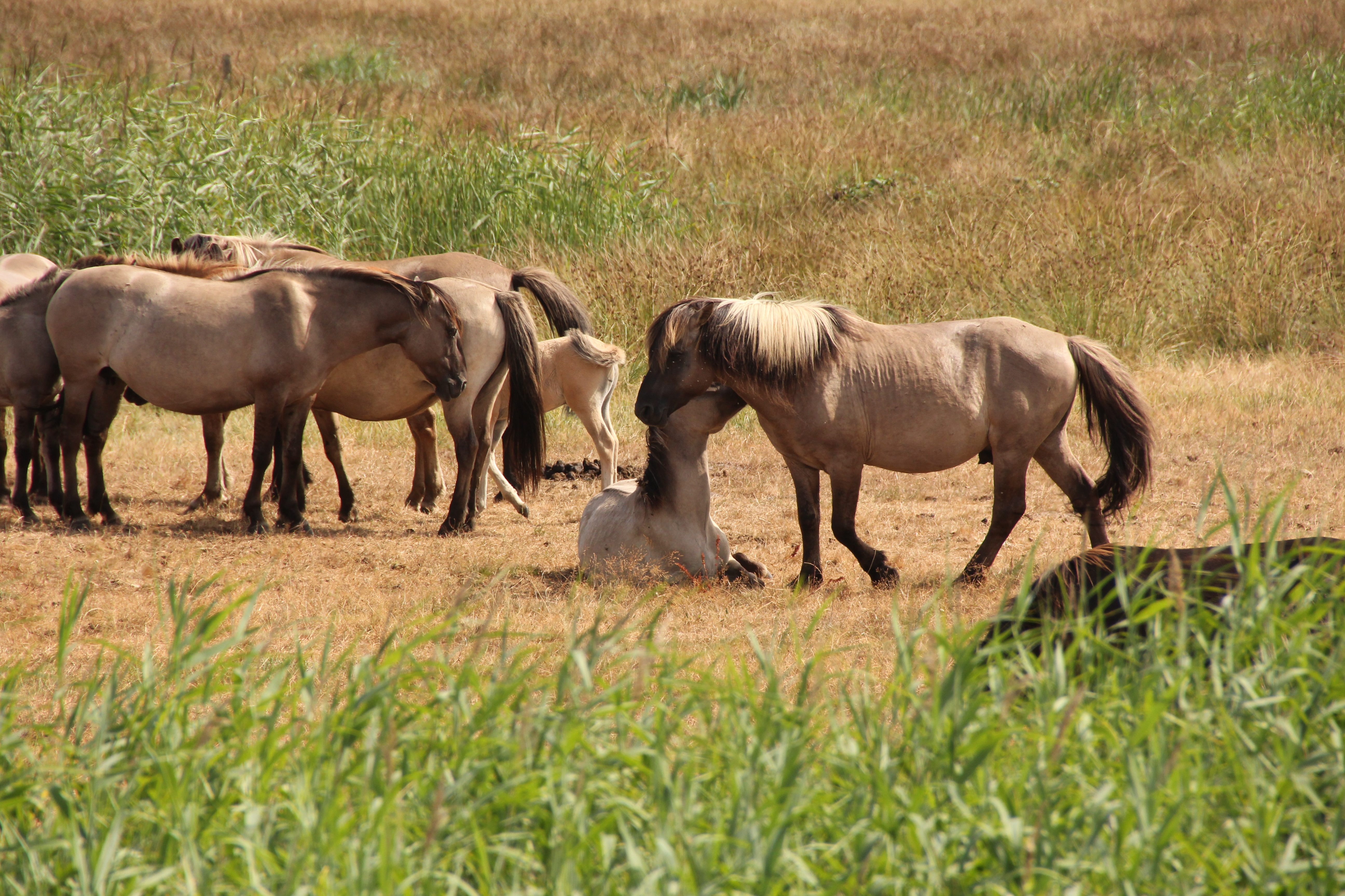 Wild Konik Horses with progeny - nature Reserve Geltinger Birk - Schleswig-Holstein